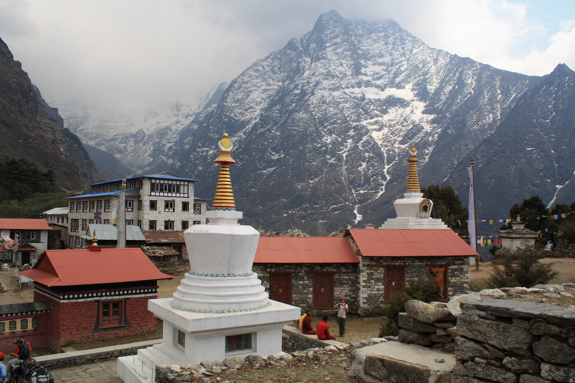 View of Tengboche village from Monastery.